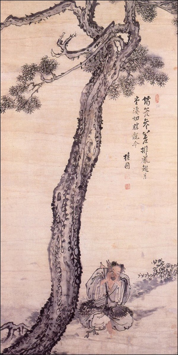 Drunken monk under a pine tree